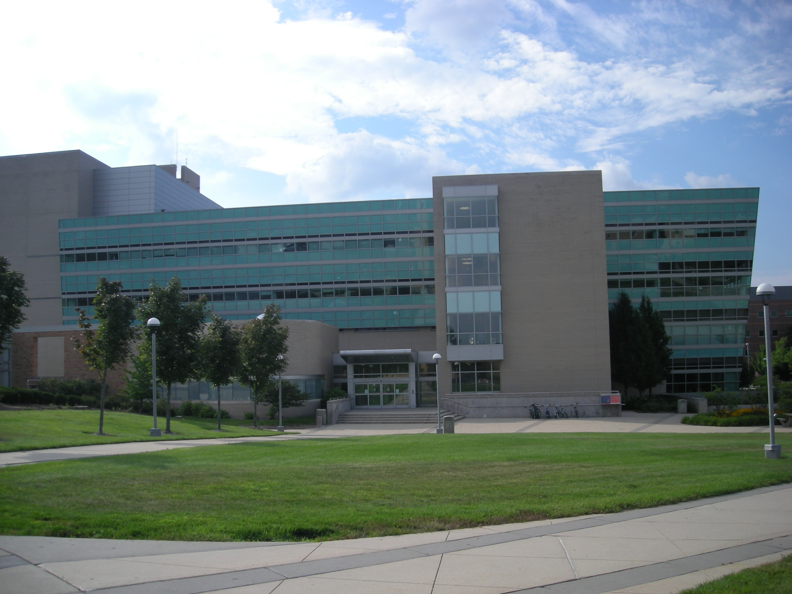 The Ferris Library for Information, Technology and Education (FLITE) on the campus of Ferris State University in Big Rapids, Michigan (United States).